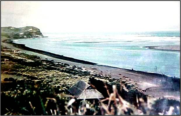 cero maule antngio